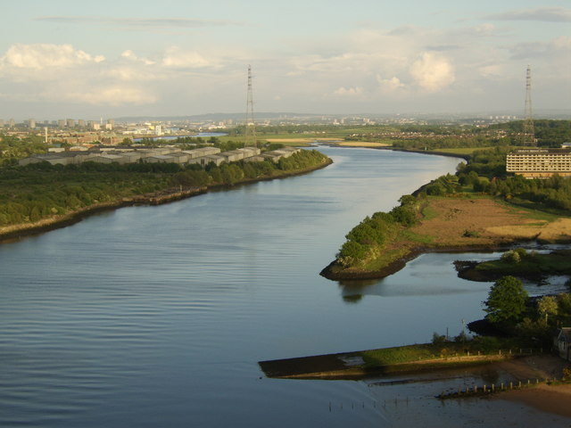 The River Clyde from the Erskine Bridge, Renfrewshire, Scotland.